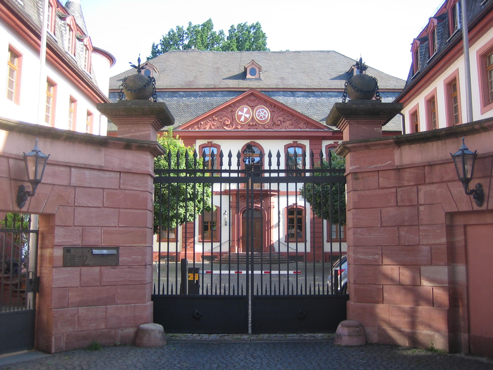 Commandry of the Sovereign Military Hospitaller Order of Saint John of Jerusalem of Rhodes and of Malta in Mainz, view from "Heilig-Grab-Gasse".